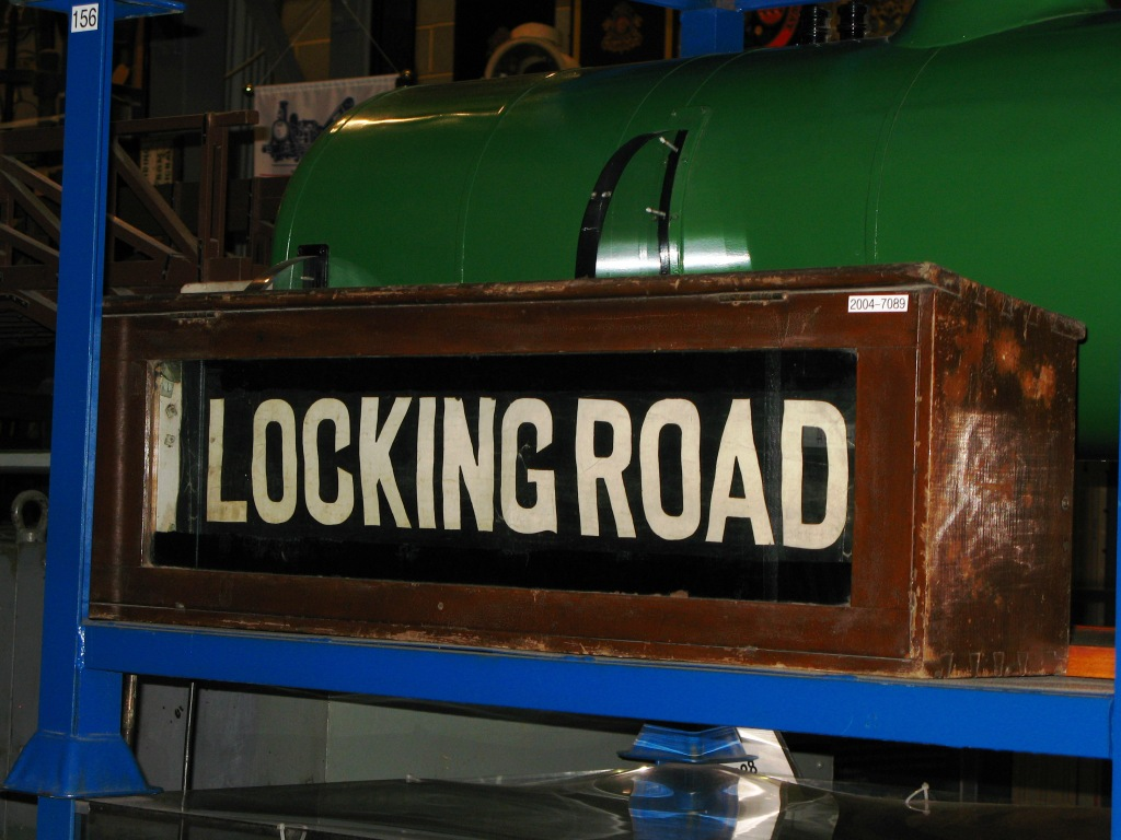 A destination indicator from a Weston-super-Mare tram car, seen at the National Railway Museum in York. The trams operated from 1902 to 1937. The Locking Road terminus was the location of the tram depot but the main route ran along the sea front from the Old Pier to the Sanatorium.